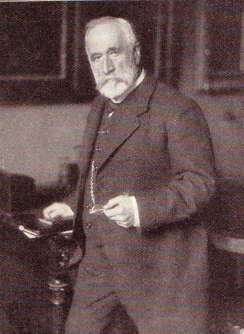 Ludwig Knaus